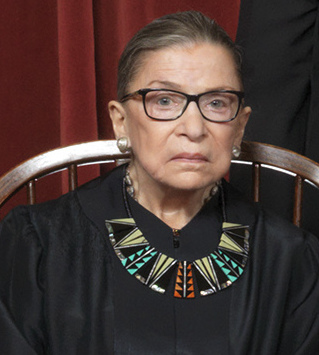 Associated Justice Ruth Bader Ginsburg in 2017.